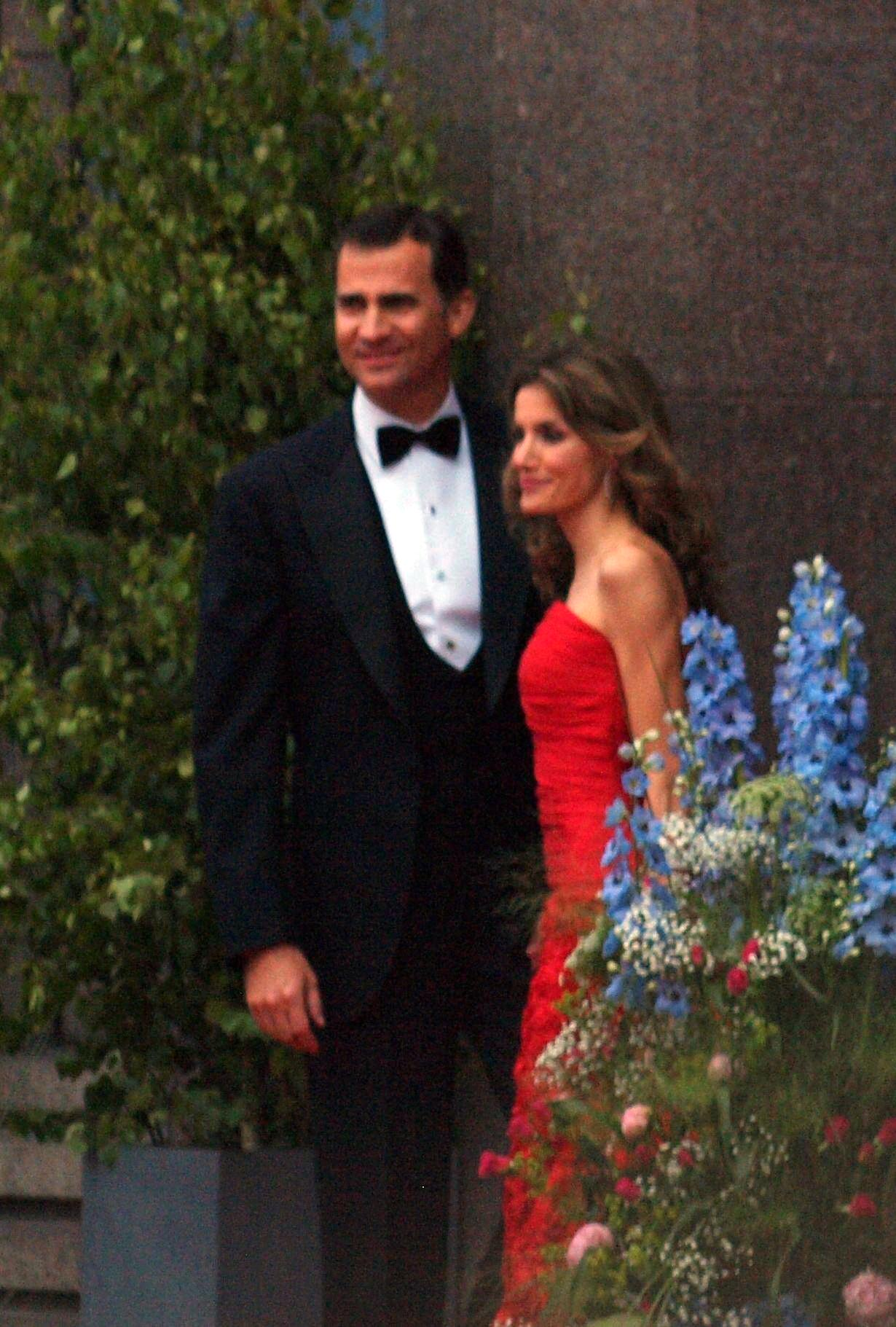 Felipe and Letizia the day before the Crown Princess wedding in Stockholm.